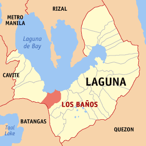 Locator map of Los Baños in Laguna, Philippines.